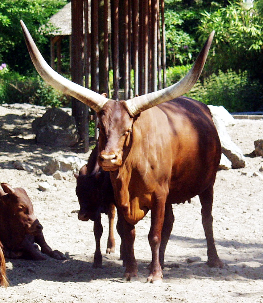 Watusi cattle at Zoo Duisburg